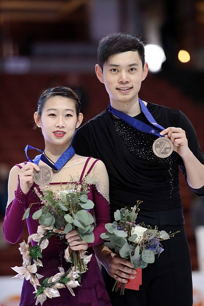 Peng Cheng and Jin Yang at the 2019 Four Continents Championships - Awarding ceremony